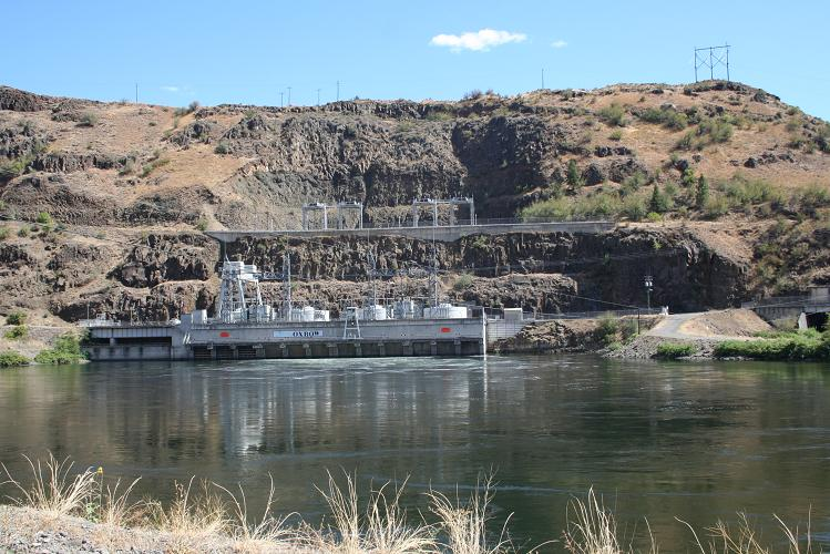 Oxbow hydroelectric dam in Idaho. Summer of 2007.